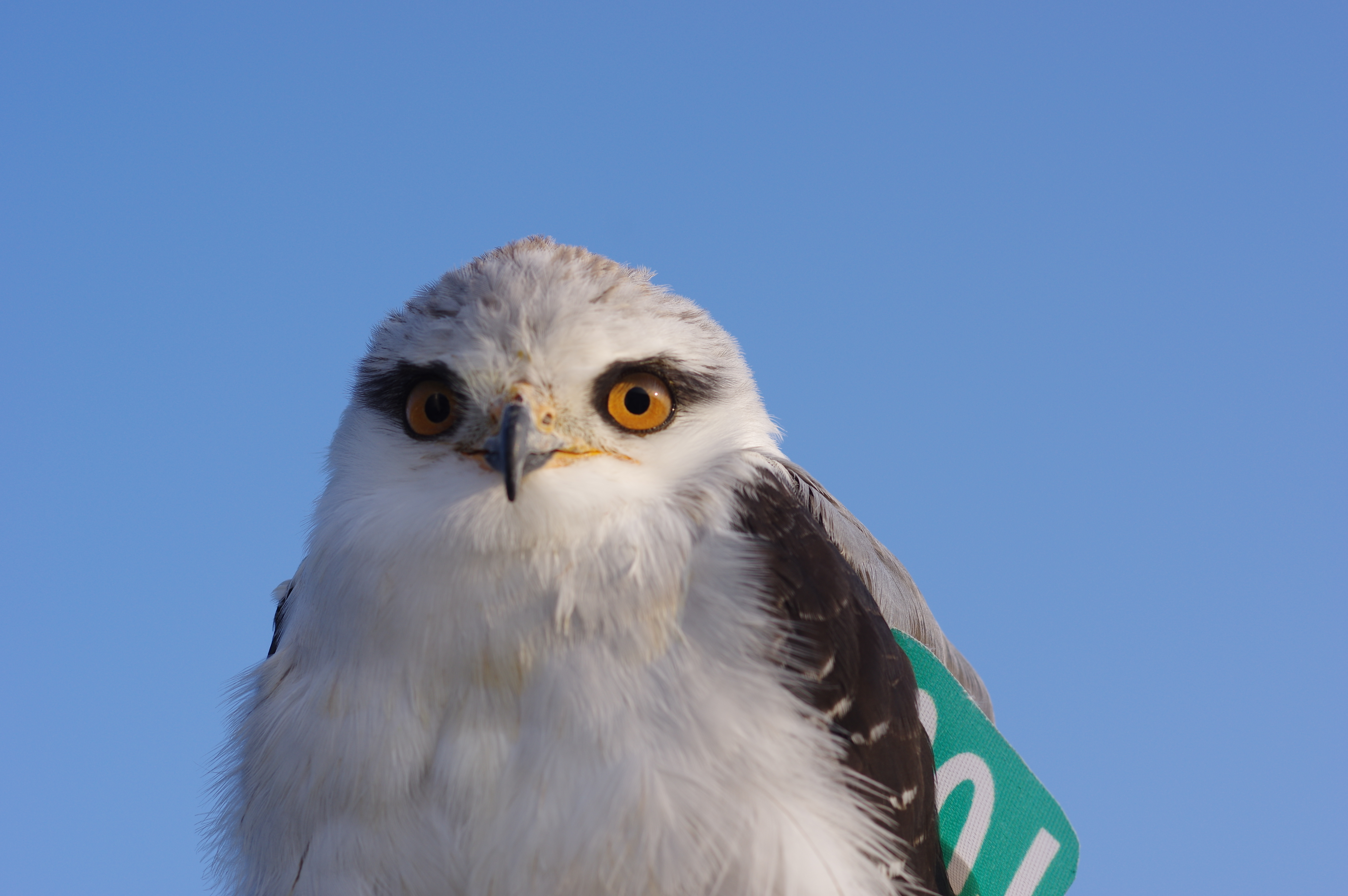 Elanus_axillaris_1